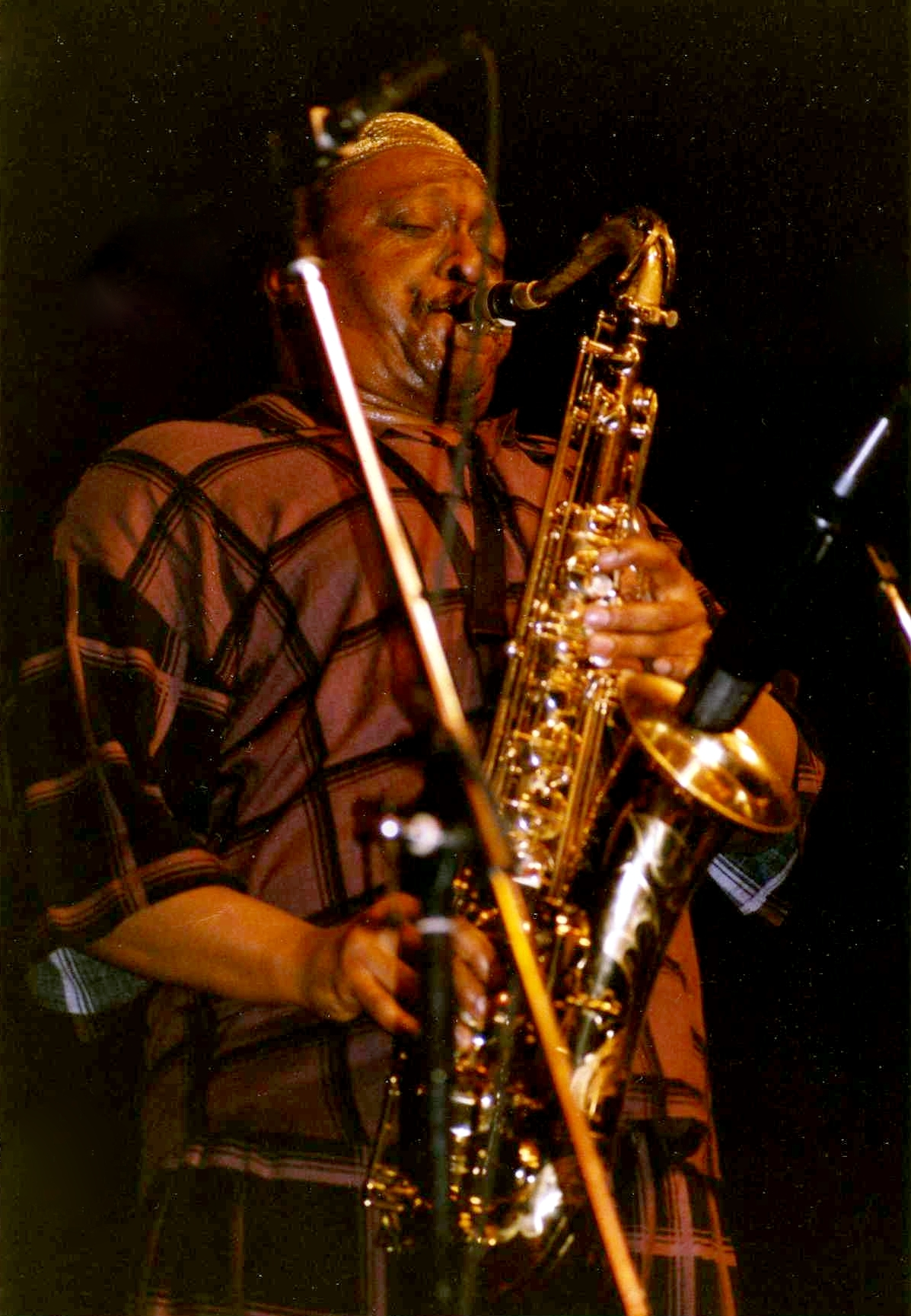 Jazz Festival Münster May 1990